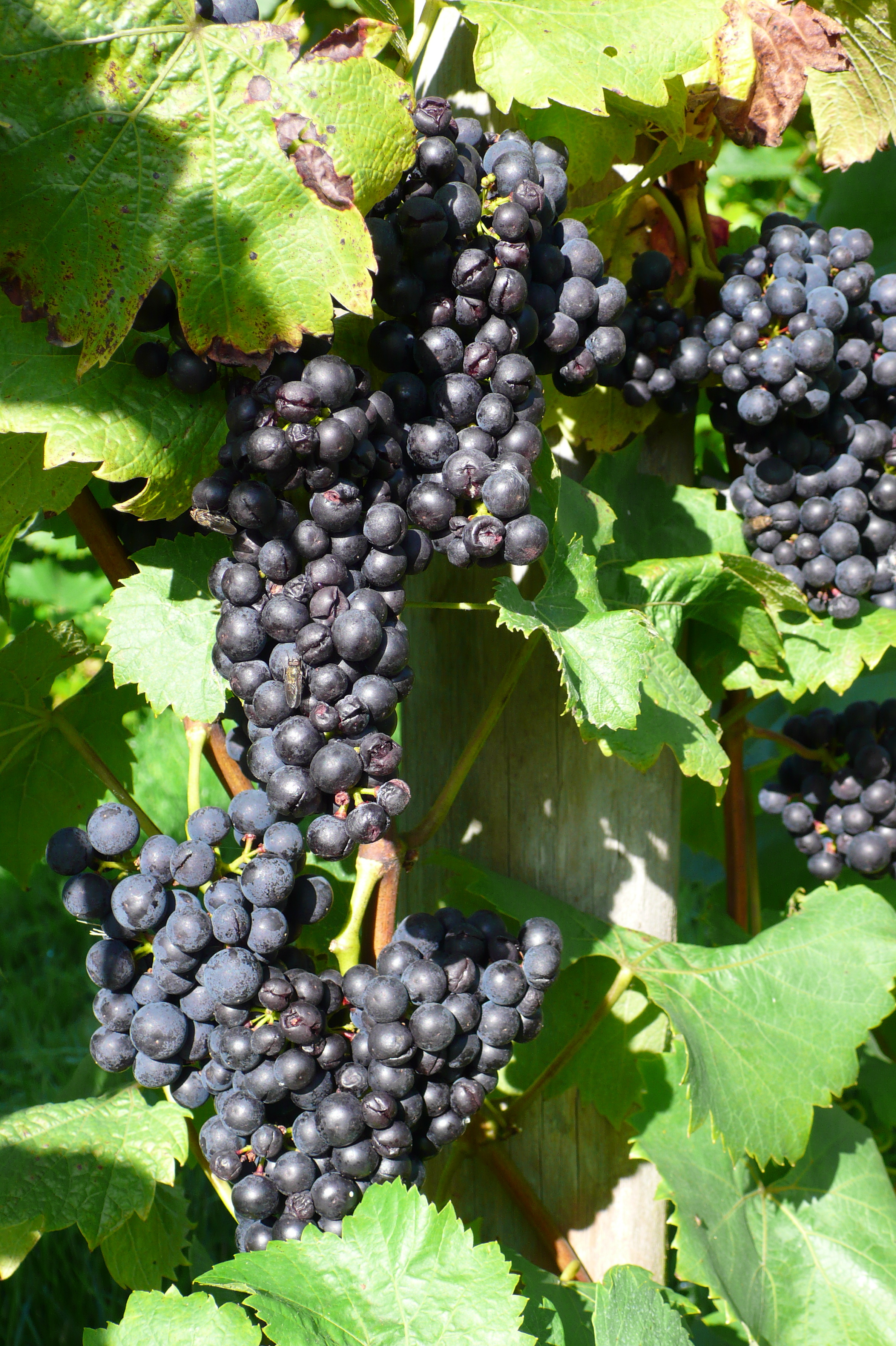 Dornfelder grapes growing in England